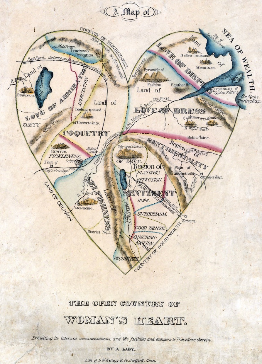 A Map of the Open Country of Woman's Heart Exhibiting its internal communications, and the facilities and dangers to Travellers therein By A Lady Lith. of D.W. Kellog & Co. Hartford, Conn. Lithography; printer's ink and watercolor on wove paper; Primary Dimensions (image height x width): 7 5/8 x 7 3/4in. (19.4 x 19.7cm) Sheet (height x width): 11 7/8 x 9 1/8in. (30.2 x 23.2cm) was published with a companion "Map of the Fortified Country of Man's Heart" (Object Number: 2010.182.1) "COUNTRY OF SOLID WORTH," the "LAND OF OBLIVION," the "SEA OF WEALTH" and the "COUNTRY OF ELIGIBLENESS." Canals, Roads, a "Rail Road," and Rivers run between the "LOVE OF ADMIRATION," the "LOVE OF DISPLAY," the "LOVE OF DRESS," the "Region of SENTIMENT," etc. At the center is the "City and District / OF LOVE.", "COUNTRY OF SOLID WORTH" "LAND OF OBLIVION" "COUNTRY OF ELIGIBLENESS" "SEA OF WEALTH" "City and District / OF LOVE" "PATIENCE / Canal" "Region of / SENTIMENT" "HOPE" "ENTHUSIASM" "GOOD SENSE" "DISCRIMI-/NATION" "PRUDENCE" "PLATONIC / AFFECTION" "FRIEND SHIP" "Dandy's Rest" "R. of Passive Musings" "R. Novel Reading" "Plain of / Susceptibility" "Land of / LOVE OF DRESS" "Pyramids of Fashion" "Feather Hill" "Satin Plains" "R. Drain the Purse" "Cashmere Tambourtin" "Bonnet Ridge" "Land of / LOVE OF DISPLAY" "Belles Maisons" "Promentory of / Golden Fetters" "Old Man's / Darling Bay" "Bay of Establishment" "Jewelry Inlet" "Land of / LOVE OF ADMIRATION" "Mole / Traps" "Province of / Deception" "Rail Road - distance performed with incredible speed" "Beauxton" "R. Flattery" "Lake of / Self Concern" "AFFECTATION" "Testing ground / of Uncertainty" "Land of / COQUETRY" "Caprice" "Fickleness" "Labarinth [sic] of / False Hopes" "Town of / Lady's Privilege" "City of / Moi-Meme" "R. Indulgence - Steam Boat Communication with Moimeme" "Land of / SELFISHNESS" "District No. 1." immediate source (edited for contrast): taken from Connecticut Historical Society Museum & Library website.